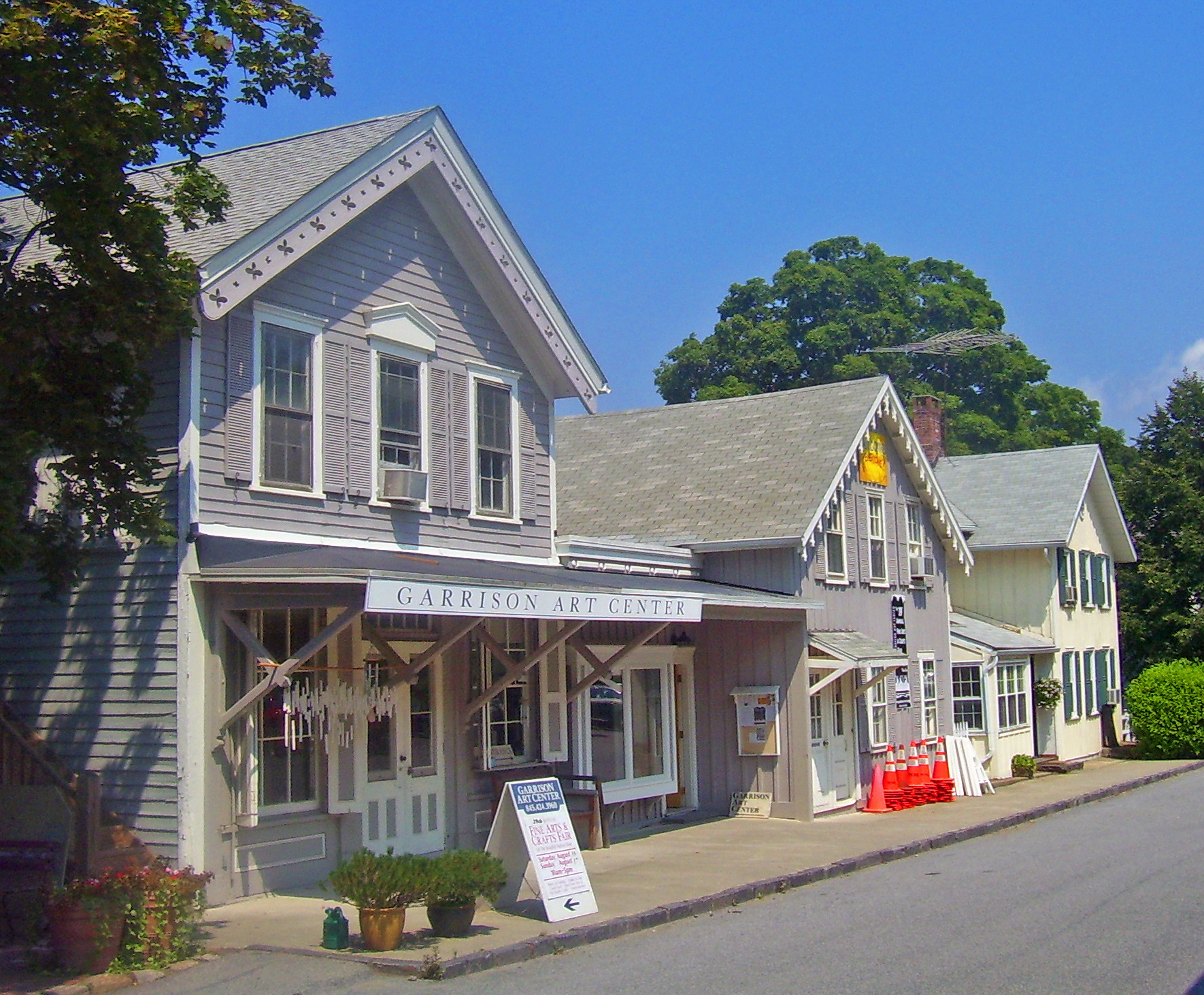 Storefronts in Garrison Landing, NY, USA